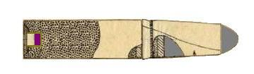 Internal constitution of paper cartridge for Chsassepot/Fusil modèle 1866